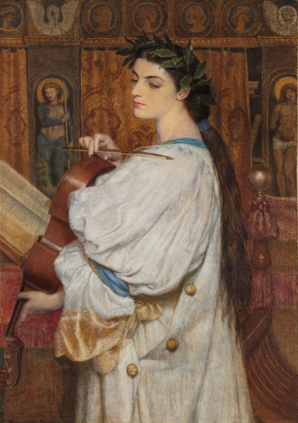 Cassandra Fedele by Frederic William Burton